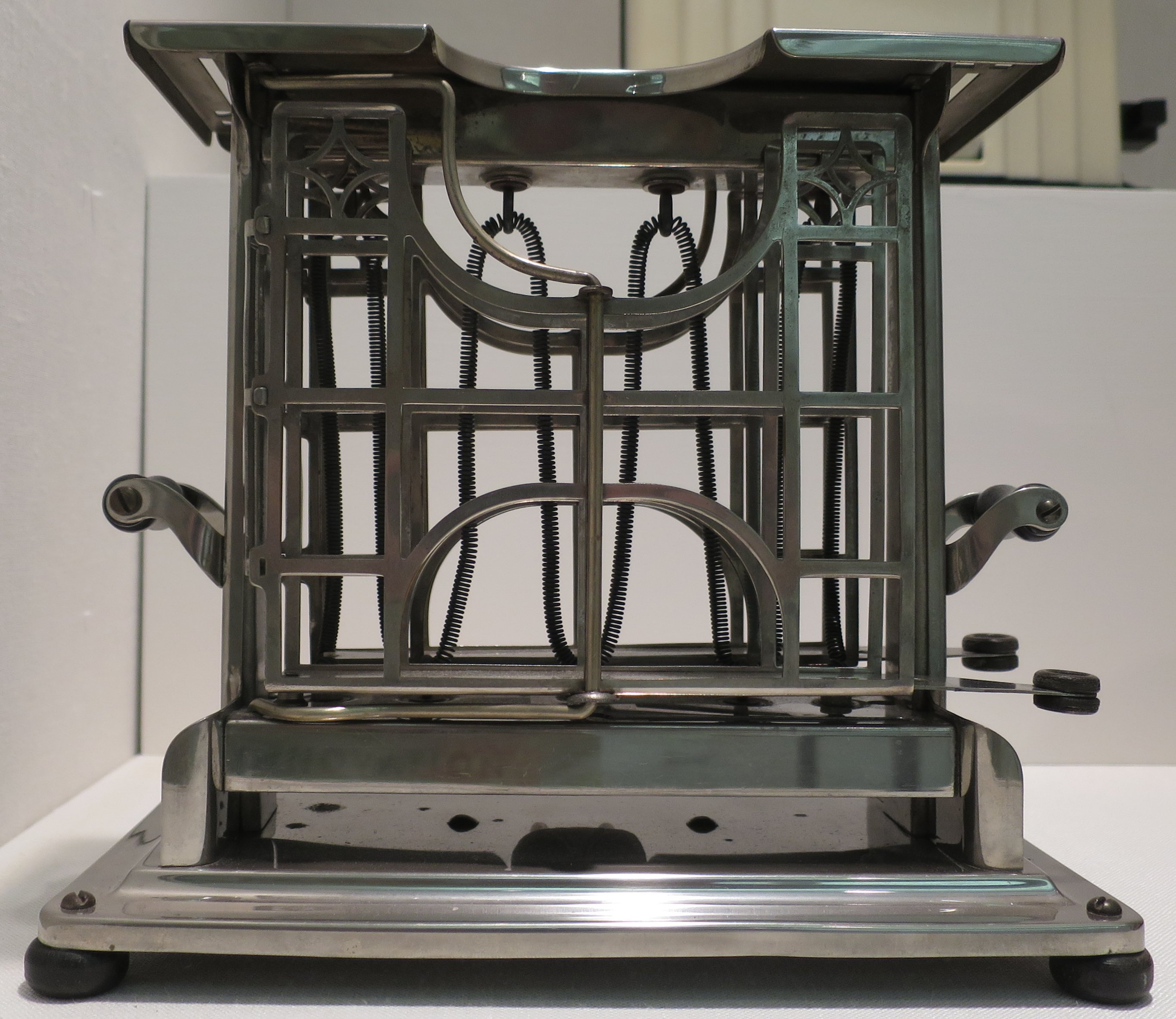 Toaster, Universal, Model E947, c. 1915, Landers, Frary and Clark, New Britain, Connecticut, Wolfsonian-FIU Museum. See also File:Wolfsonian-FIU_Museum_-_IMG_8174.JPG.